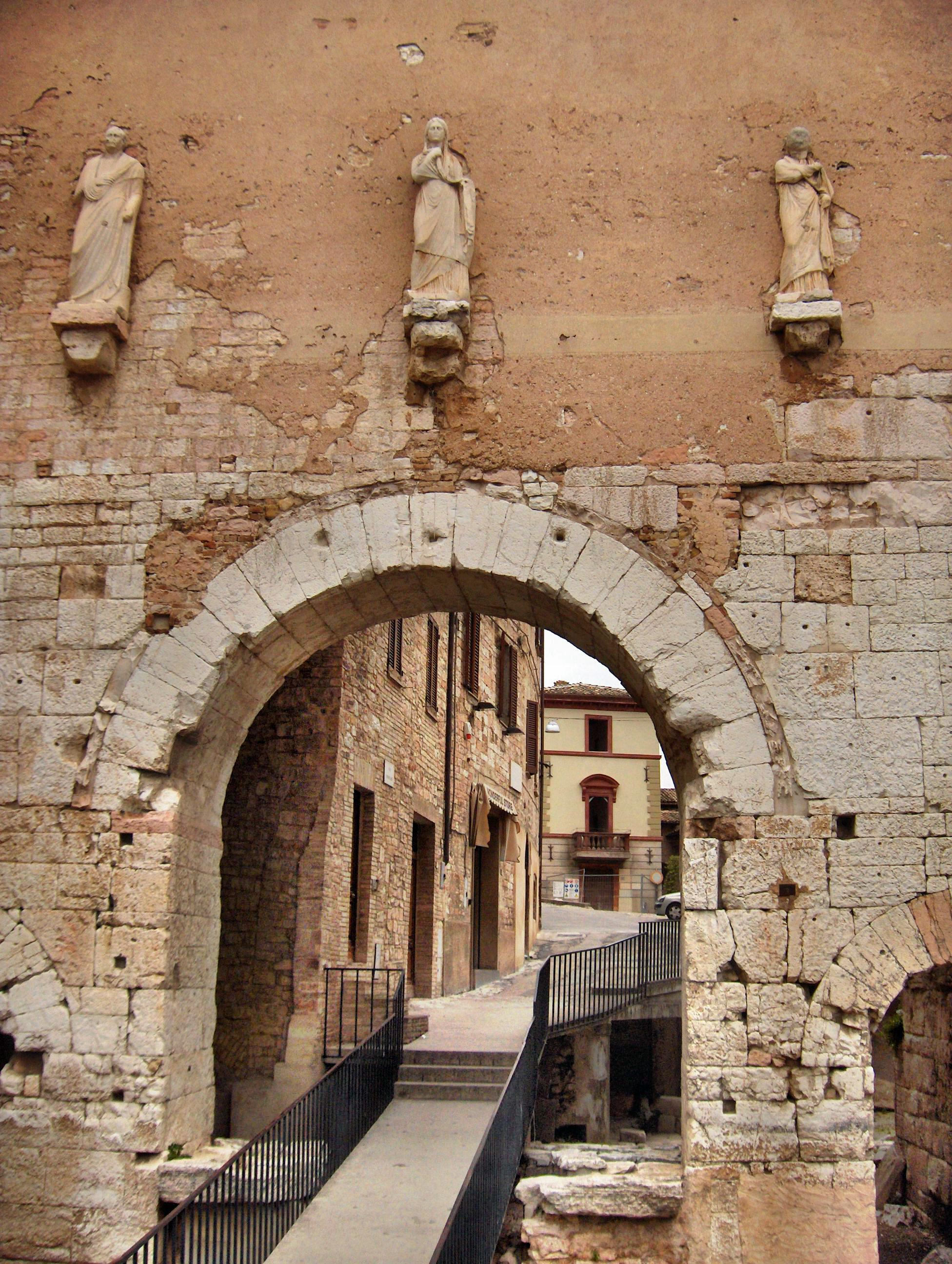 Three statues dating from the Republican Age or from the Julius-Claudius era (1st century); Porta Consolare, a city gate dating from the Triumvirate and the Augustan Age; Spello, Italy